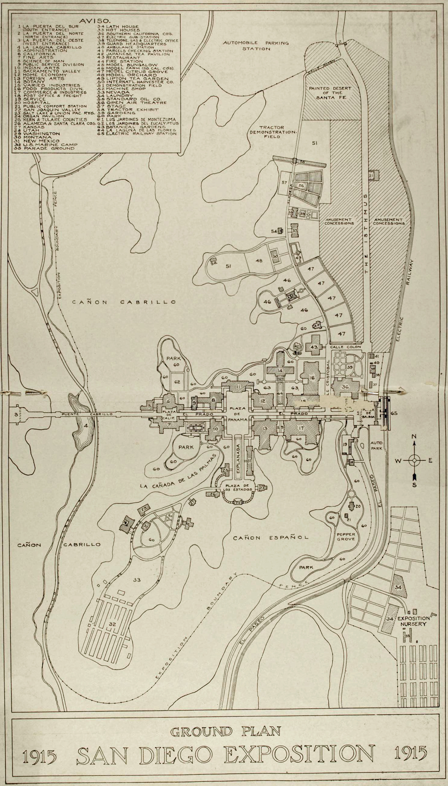 Map overview of the 1915 Panama-California Exposition in Balboa Park, San Diego, California.